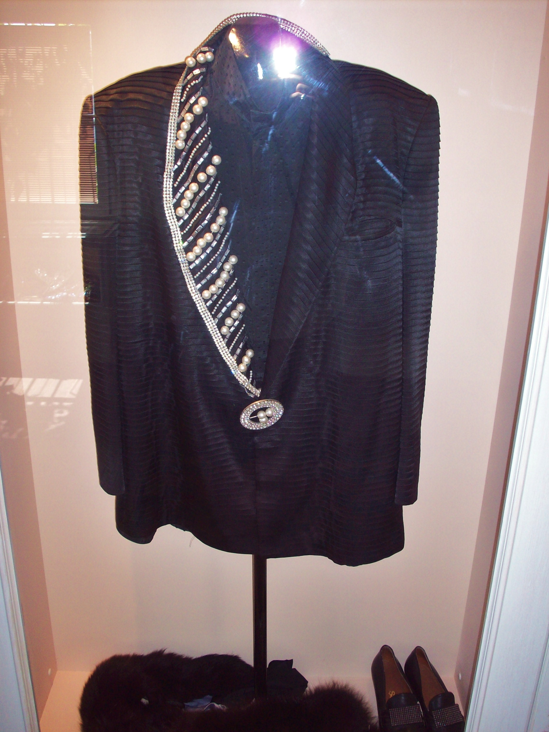 Costume of Turkish singer Zeki Müren shown at his museum in Bodrum, Turkey